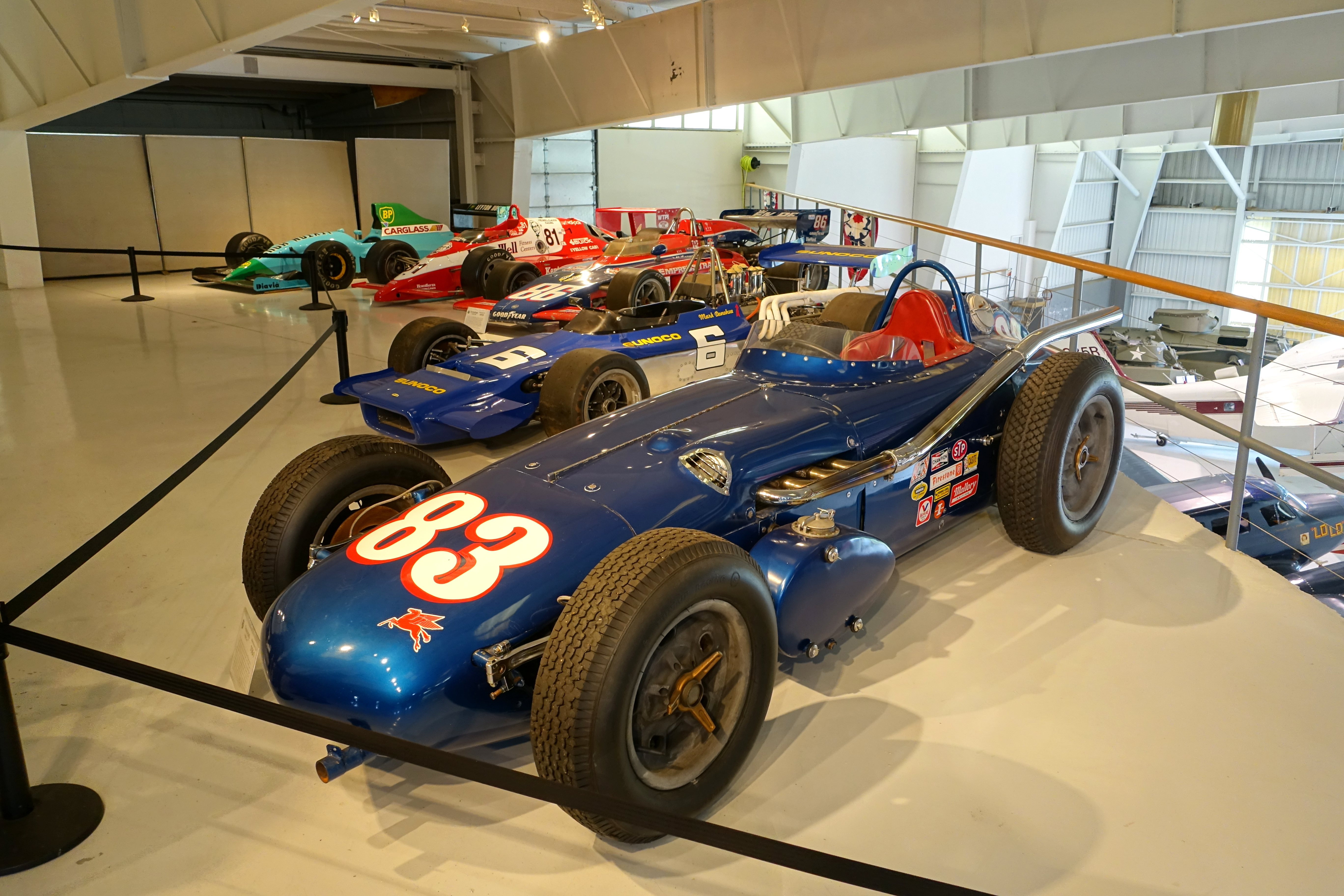 Exhibit in the Collings Foundation - Stow / Hudson, Massachusetts, USA.